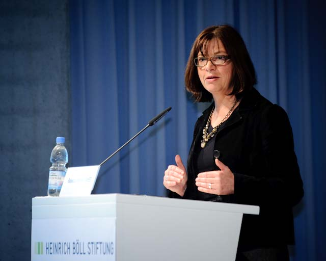 Foto: Stephan Röhl